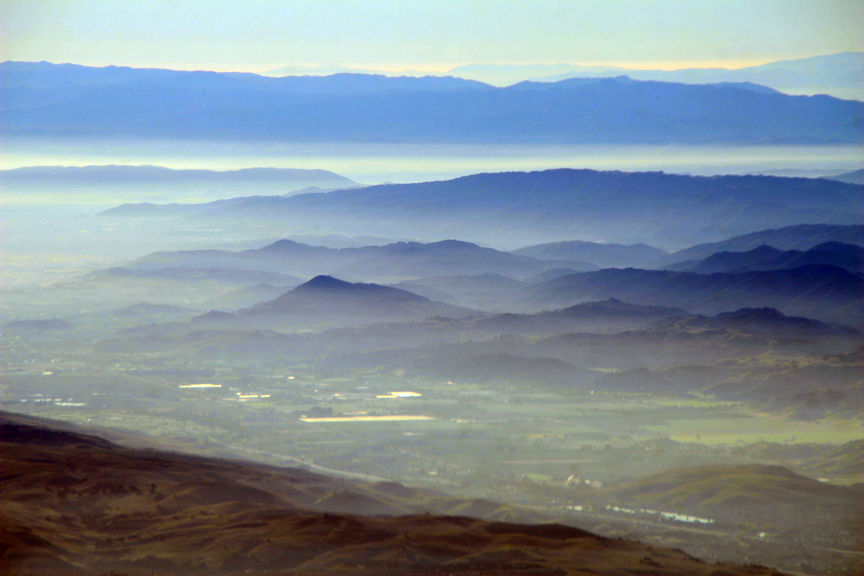 Aerial view of southern Santa Clara Valley, including Morgan Hill, named after Hiram Morgan Hill, with its iconic hill, "El Toro", on the west side of town. Monterey Bay is in the distance on the right, with the Coast Range mountains at the northern end of Big Sur.